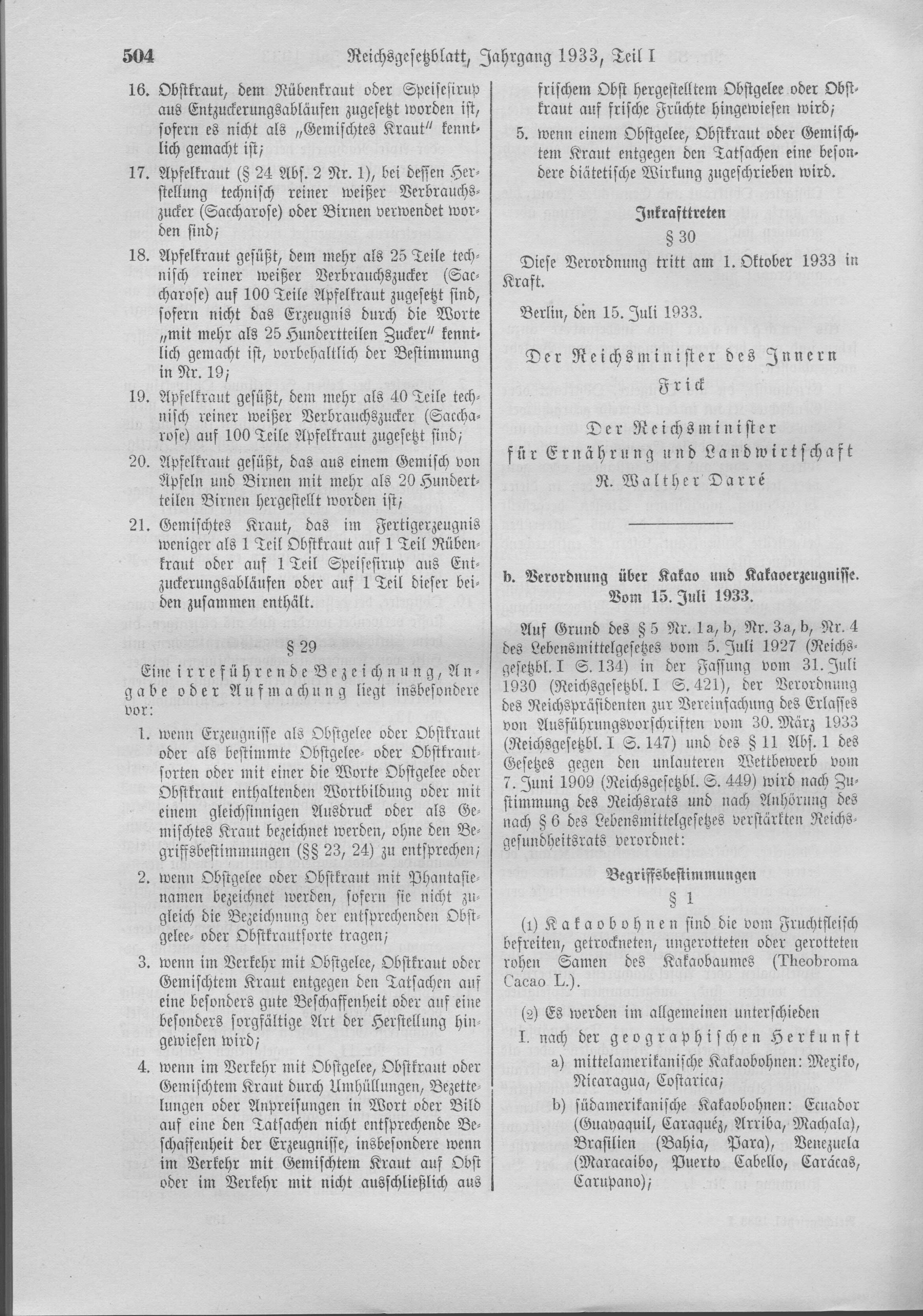 Scan from the Imperial Law Gazette of Germany, 1933, part 1